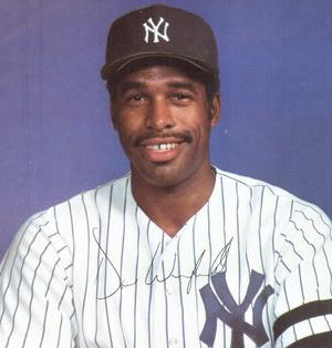 Professional baseball player Dave Winfield during the 1981 season as a member of the New York Yankees.